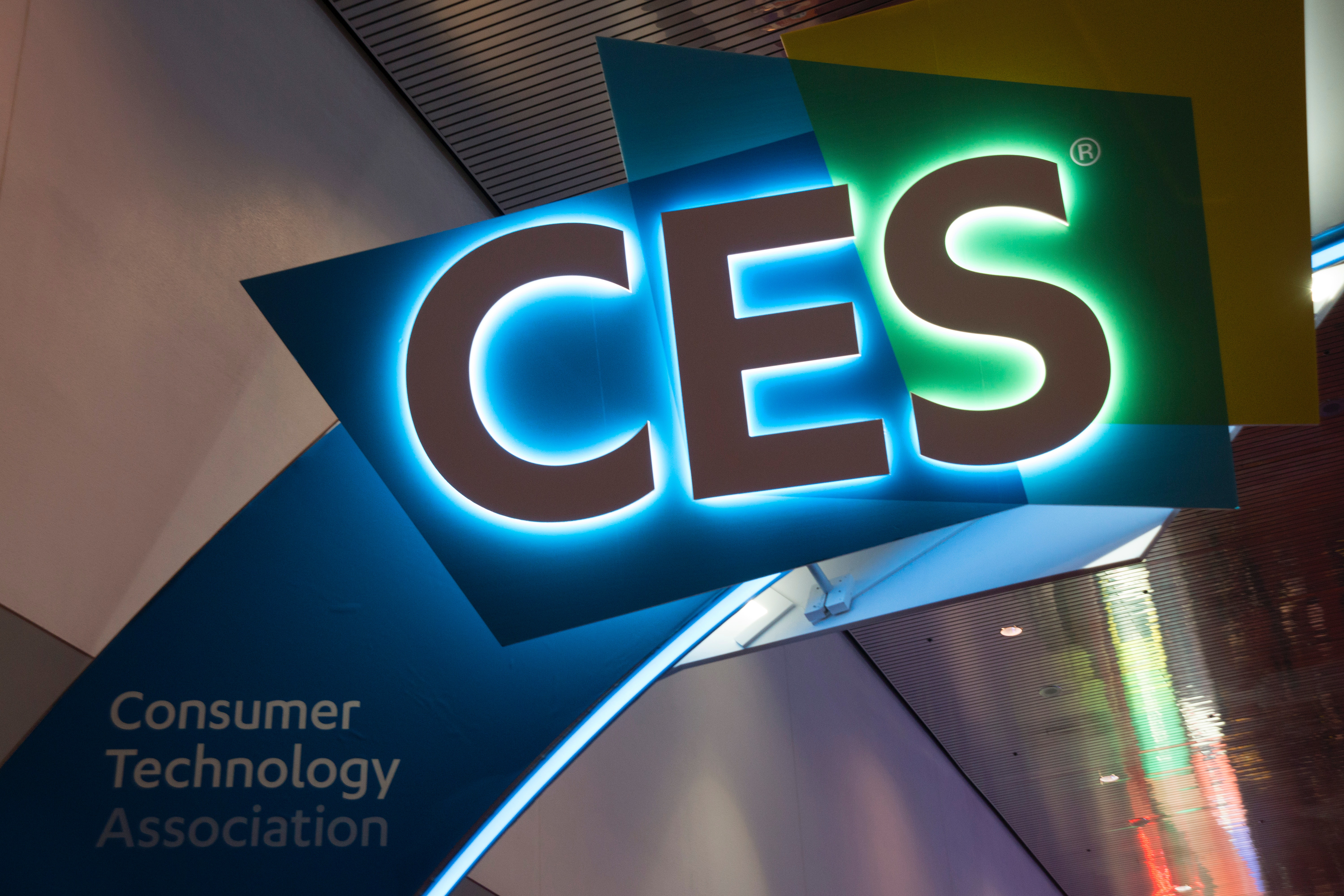 The Consumer Electronics Show in Las Vegas, NV.